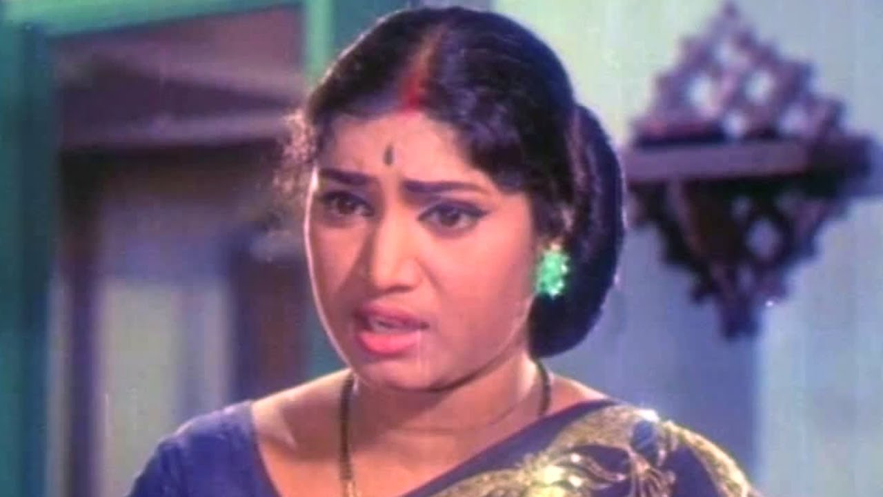 Indian film actress Rama Prabha in a scene from the 1971 Telugu film Kalyana Mandapam